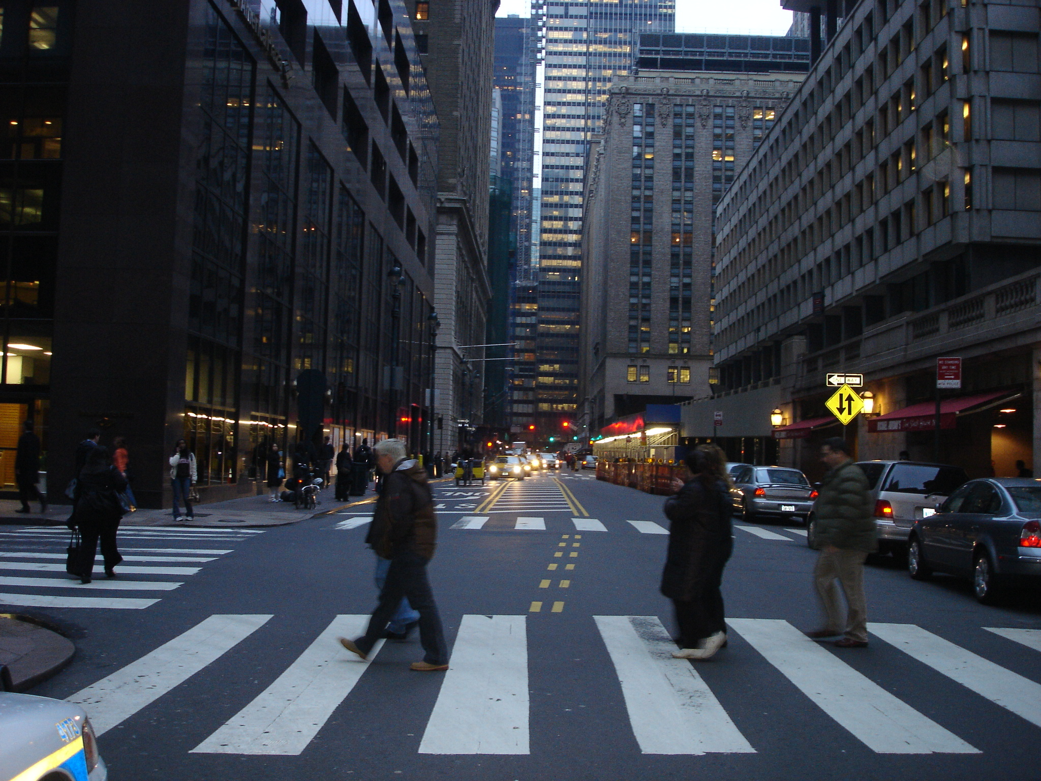 This photo is of Wikipedia Takes Manhattan location code 93, Vanderbilt Avenue (Manhattan).